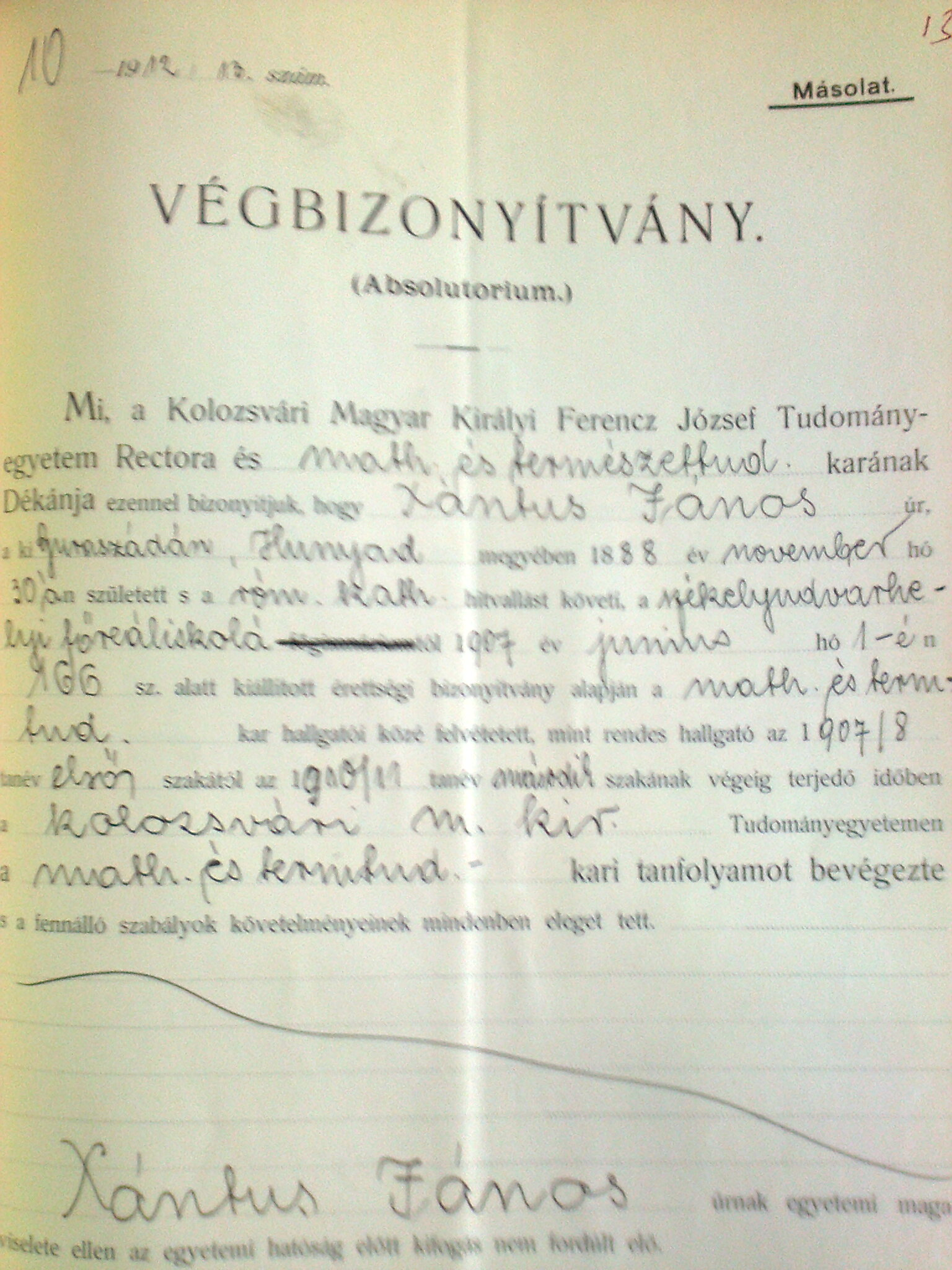 Absolutorium diploma of János Xantus (1888-1962)